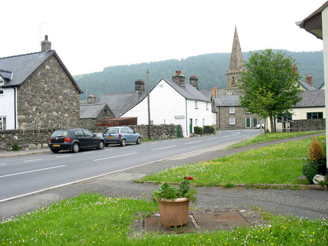 Western approach to the sharp bend in High Street, Llandrillo, Denbighshire (formerly Merionethshire)